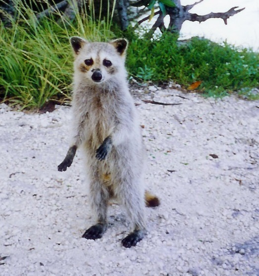 Torch Key raccoon P. l. incautus, Cudjoe Key, Florida, United States.